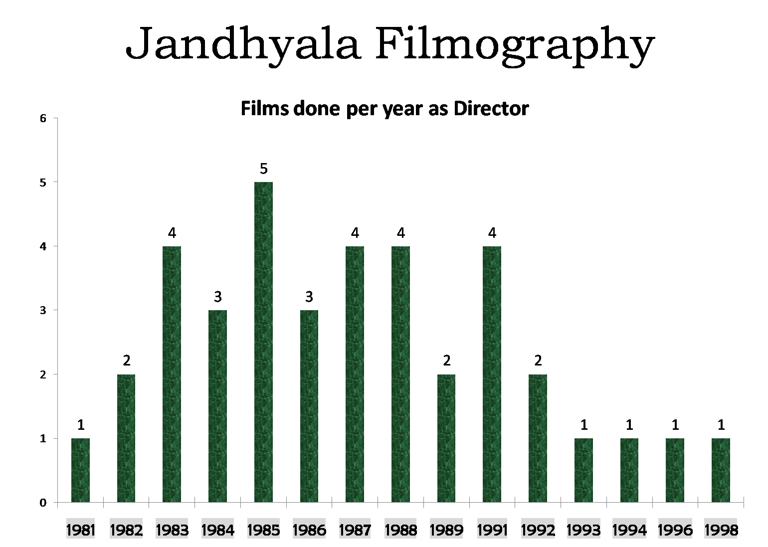 Filmography chart of the films done per year by Director Jandhyala